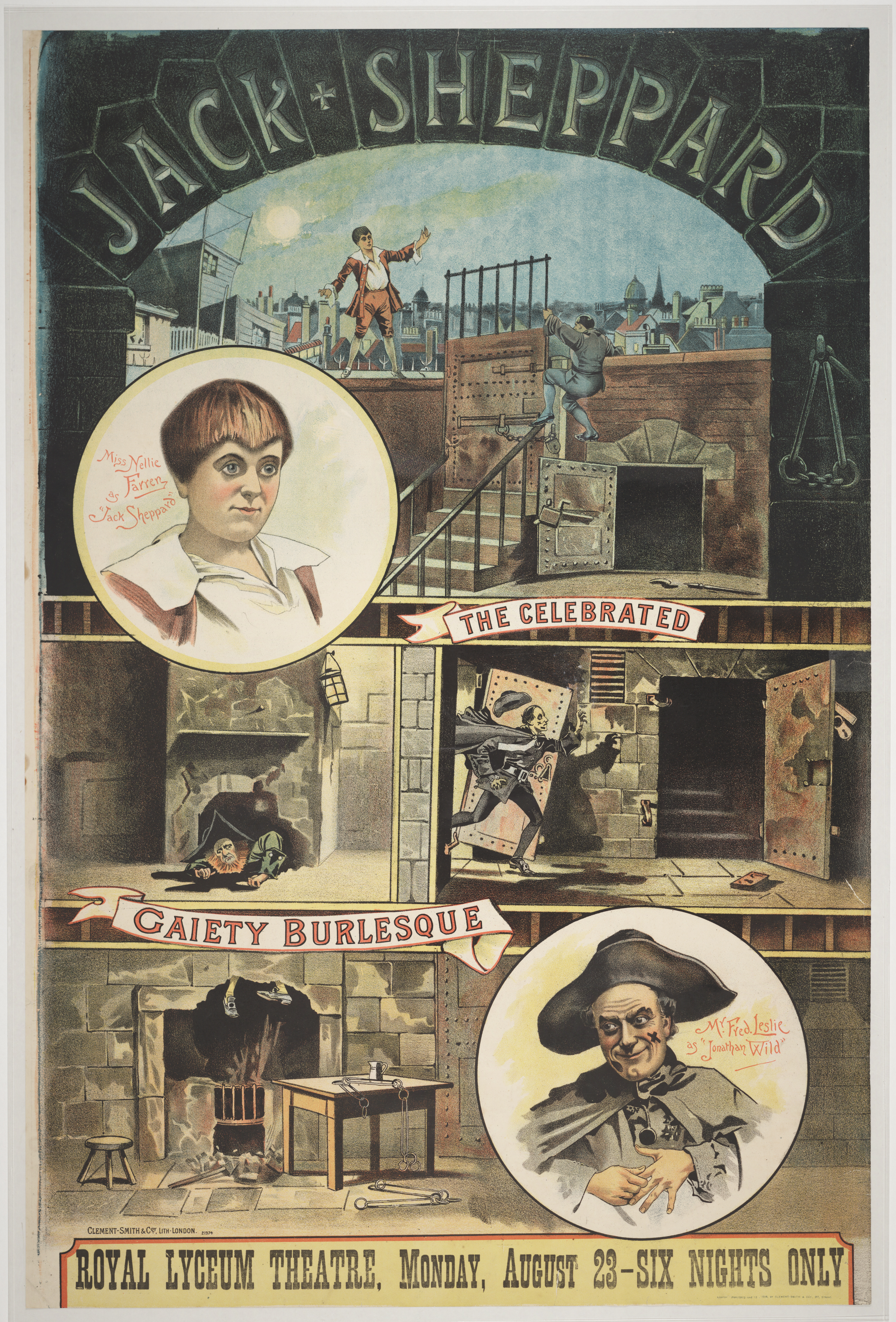 Poster for Edinburgh production of Little Jack Sheppard. 'Jack Sheppard'. The celebrated Gaiety Burlesque. Monday, August 23 - Six nights only. Caption: 'Miss Nellie Farren as Jack Sheppard' and 'Mr Fred Leslie as Jonathan Wild'. Printed by Clement-Smith & Co[mpan]y, Lithographer, London. Published June 18, 1885, by Clement-Smith & Co[mpan]y, 317 Strand.